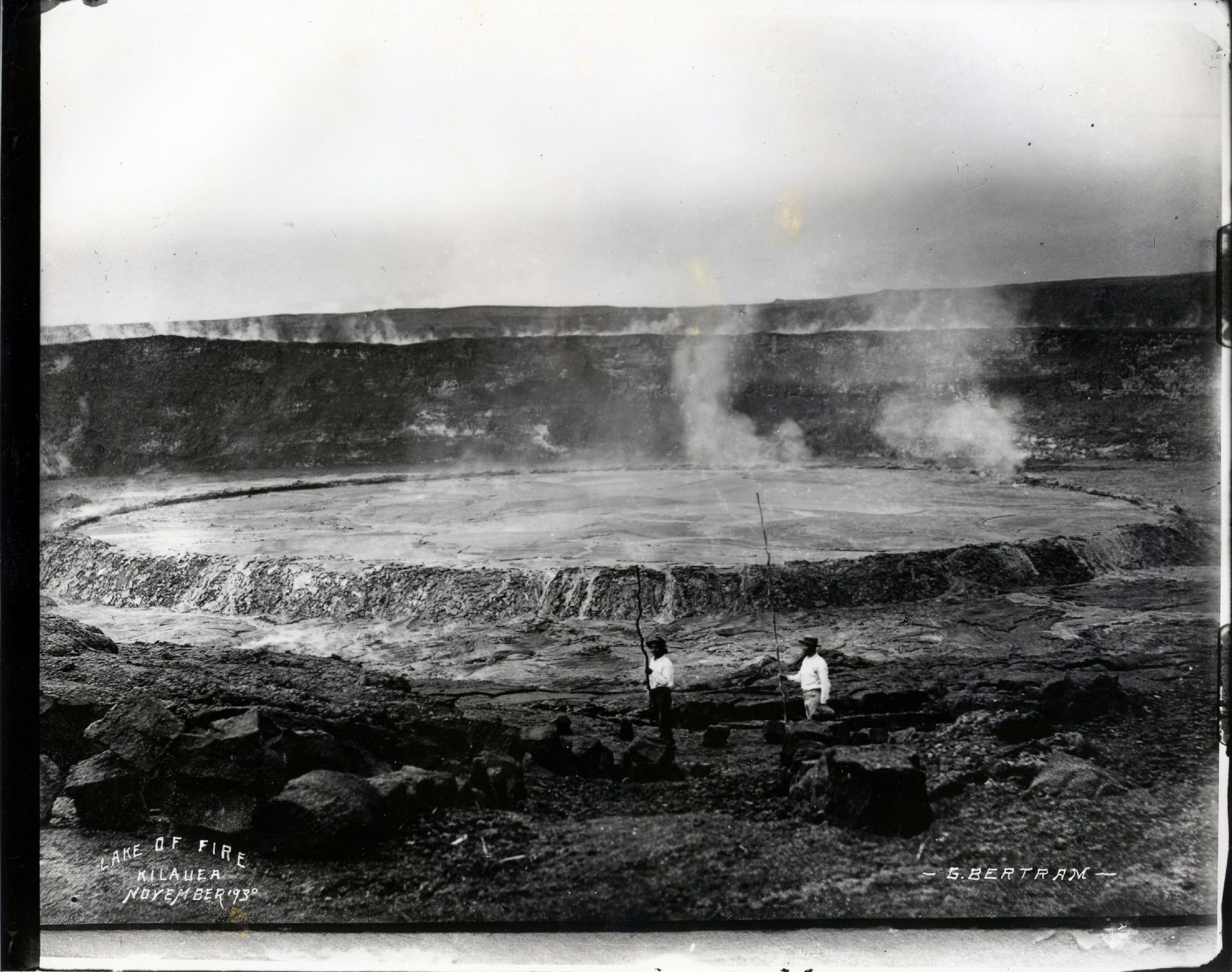 Title: Lake of Fire, Kilauea Creator: Brother Bertram Subjects: Kilauea ; People; Hale Ma'u Ma'u ; Hale Ma`u Ma`u ; Hale Mau Mau Island: Hawaii City: Kilauea Location: Kilauea, HI